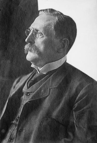 Wilhelm von Bode (1845-1929), a German art historian and curator